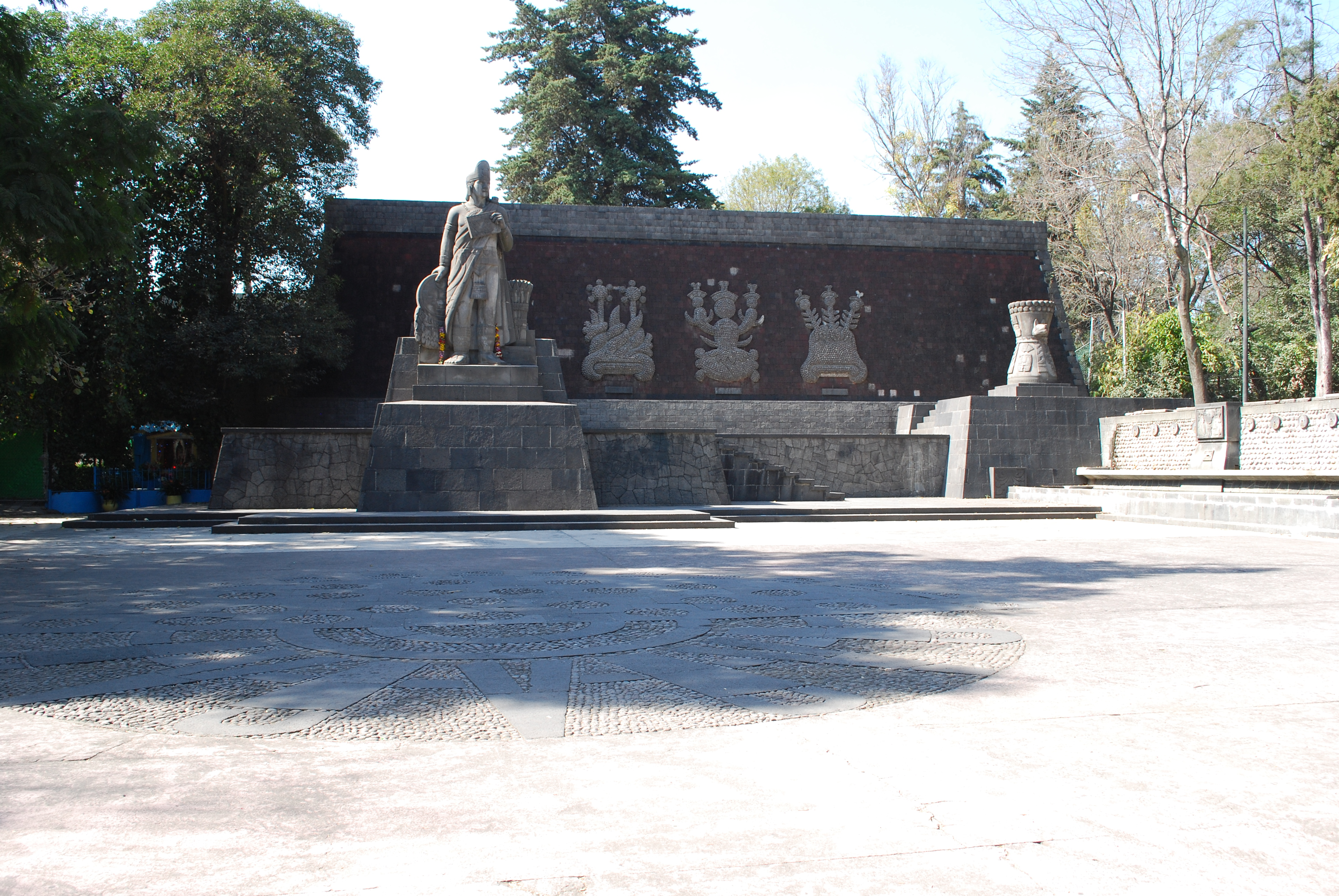 Fountain and monument to Nezahualcoyotl in Chapultepec Park, Mexico City